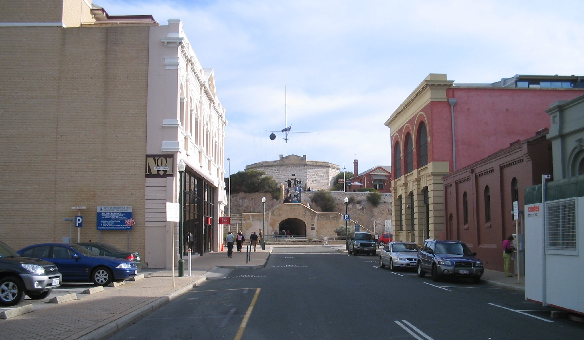 Round House, Fremantle - taken from High Street